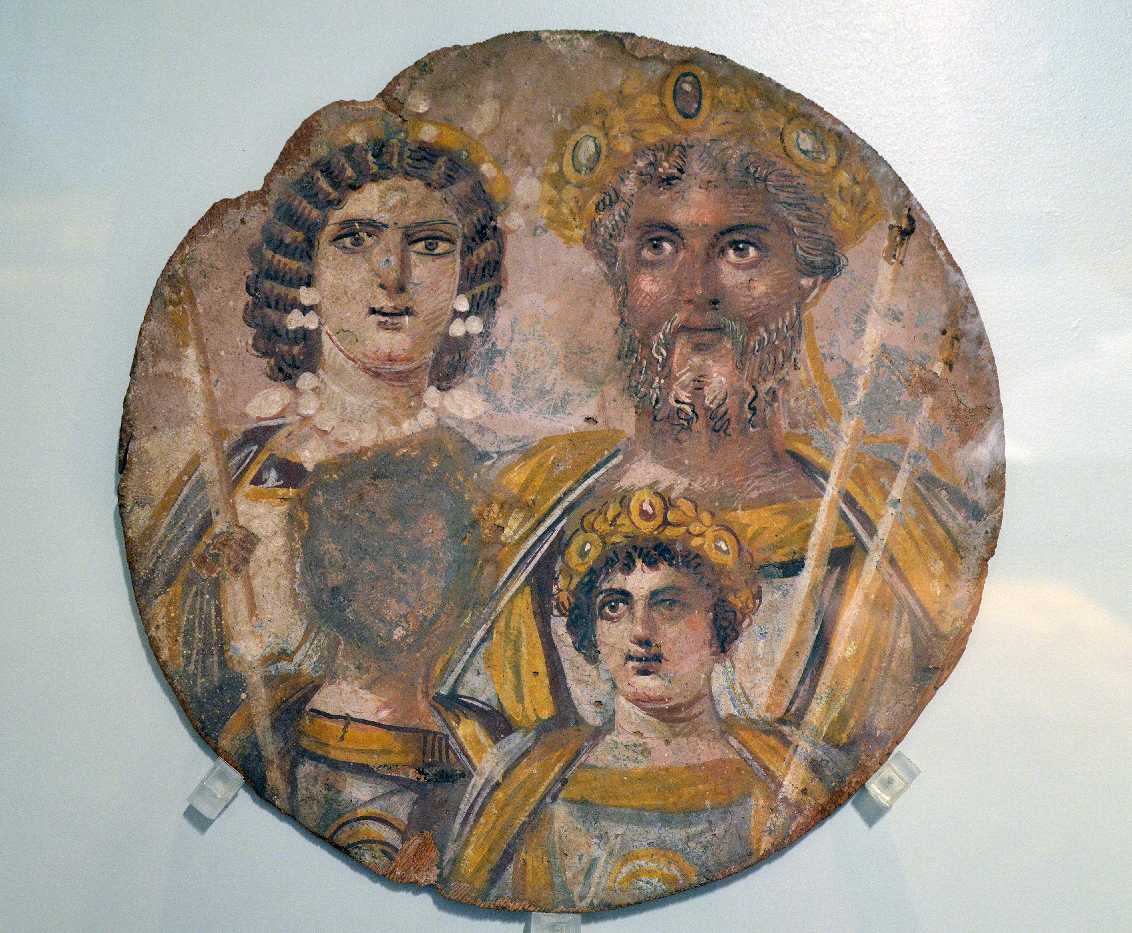 The Severan Tondo, from circa AD 200, is one of the few preserved examples of panel painting from Classical Antiquity. It is a tempera or egg-based painting on a circular wooden panel (tondo), with a diameter of 30.5 cm. At present, it is on display at the Antikensammlung Berlin (inventory number 31329).The panel depicts the Roman Emperor Septimius Severus with his family: to the left his wife Julia Domna, in front of them their sons Geta and Caracalla. All are wearing sumptuous ceremonial garments; Septimius Severus and his sons are also holding sceptres and wearing gold wreaths decorated with precious stones. Geta's face has been removed, probably after his murder by his brother Caracalla and the ensuing damnatio memoriae.The image is probably an example of imperial portraits that were mass-produced to be displayed in offices and public buildings throughout the empire - as part of Roman legal procedure some documents had normally to be signed in front of an image of the Emperor, which gave them the same status as if signed in his actual presence.[1] With each change of emperor, they would have been discarded or replaced. Since wood is an organic material and does not normally survive, the Berlin Tondo remains, so far, the only surviving specimen of this type of painting. It appears to be of Egyptian origin.Originally, the tondo had most likely a square or rectangular shape. This is best visible at the scepters the males of the picture are holding. The upper parts once adorned with imperial symbols are today missing. It seems that it was cut in modern times for better selling it on the art market.